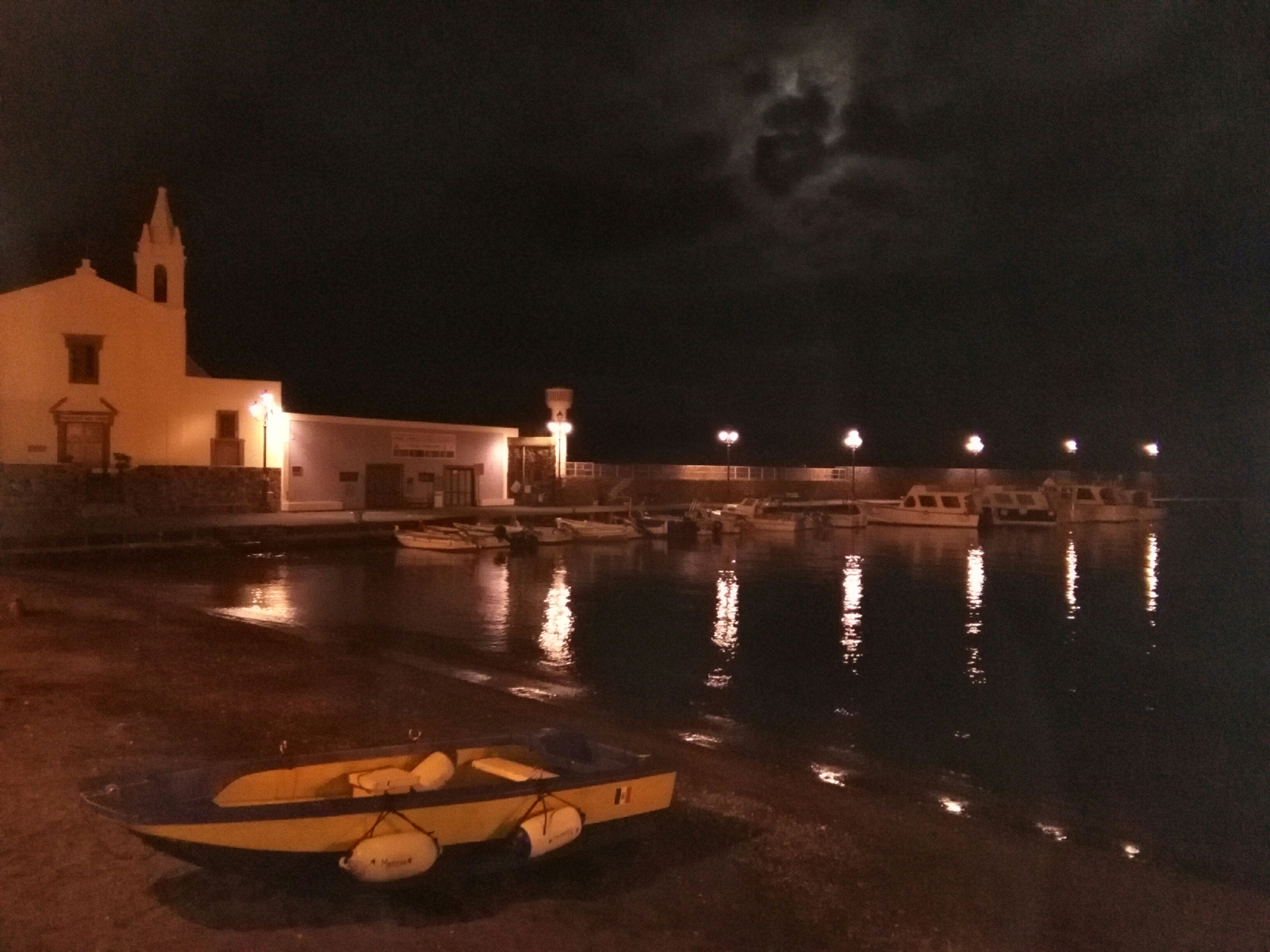 Small port at Marina Corta, Lipari, Aeolian Islands